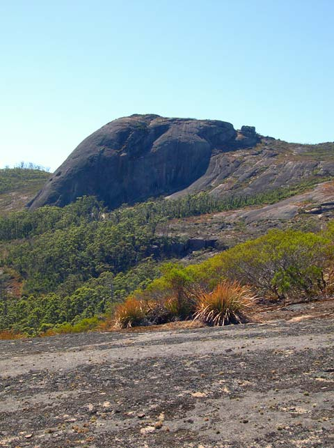 Western view of Gibraltar Rock, Porongurup National Park, as seen from Bates Peak walk trail.